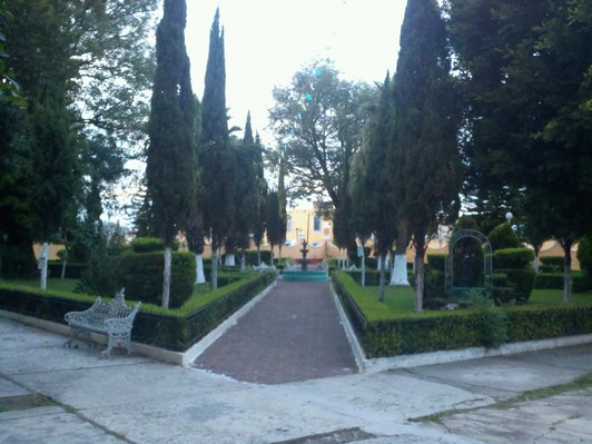 Ex-Convento Franciscano en Cholula de Rivadabia